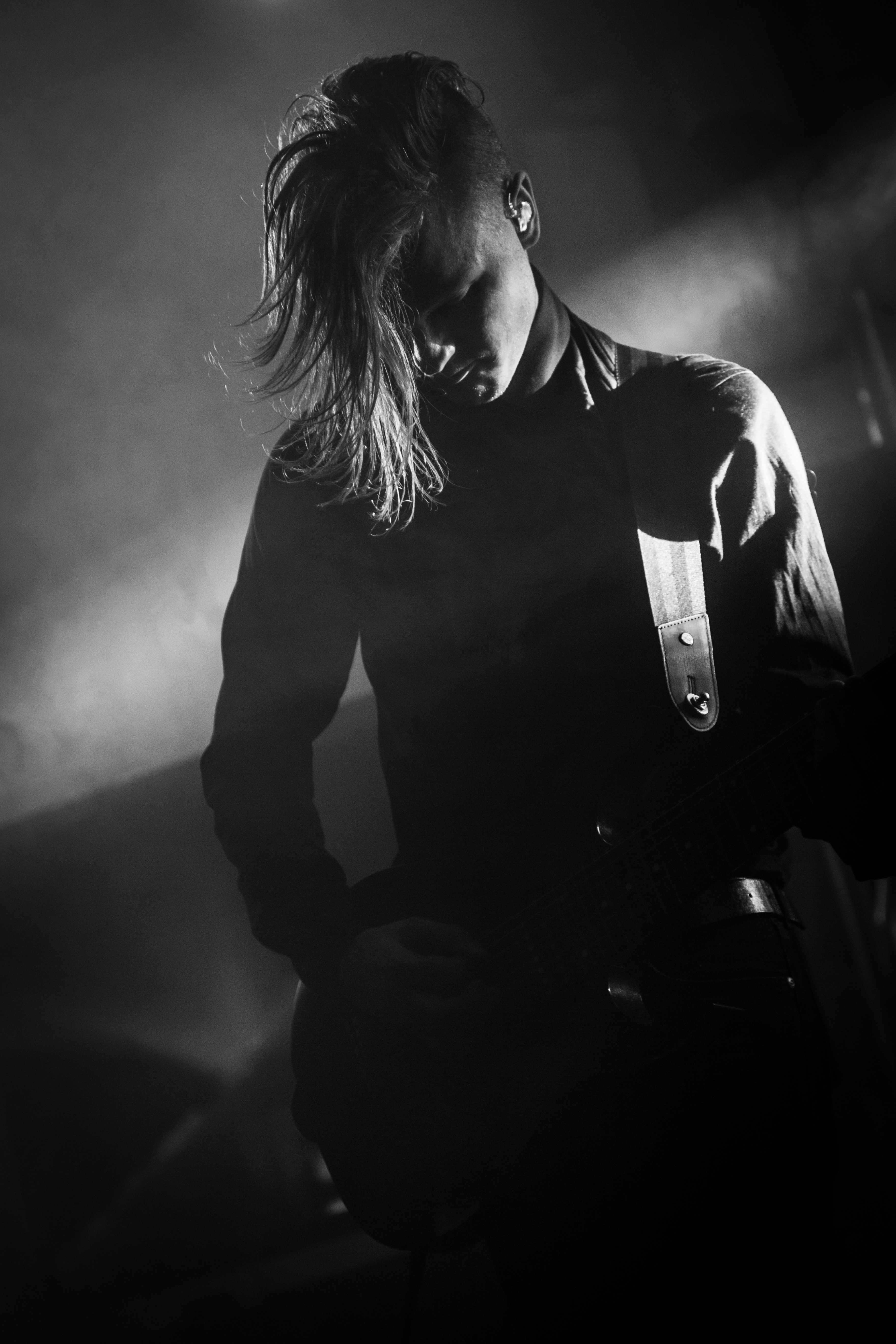 Leprous performing live at Euroblast Festival 2015, Cologne, Germany